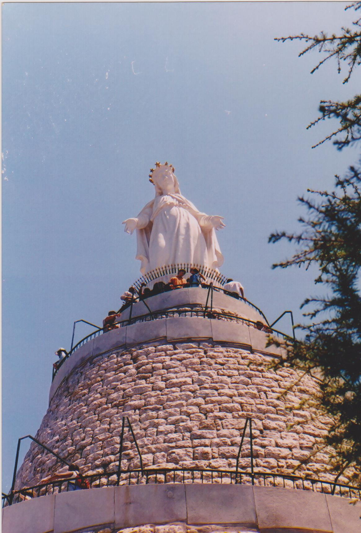 Harissa, Lebanon. Statue of Virgin